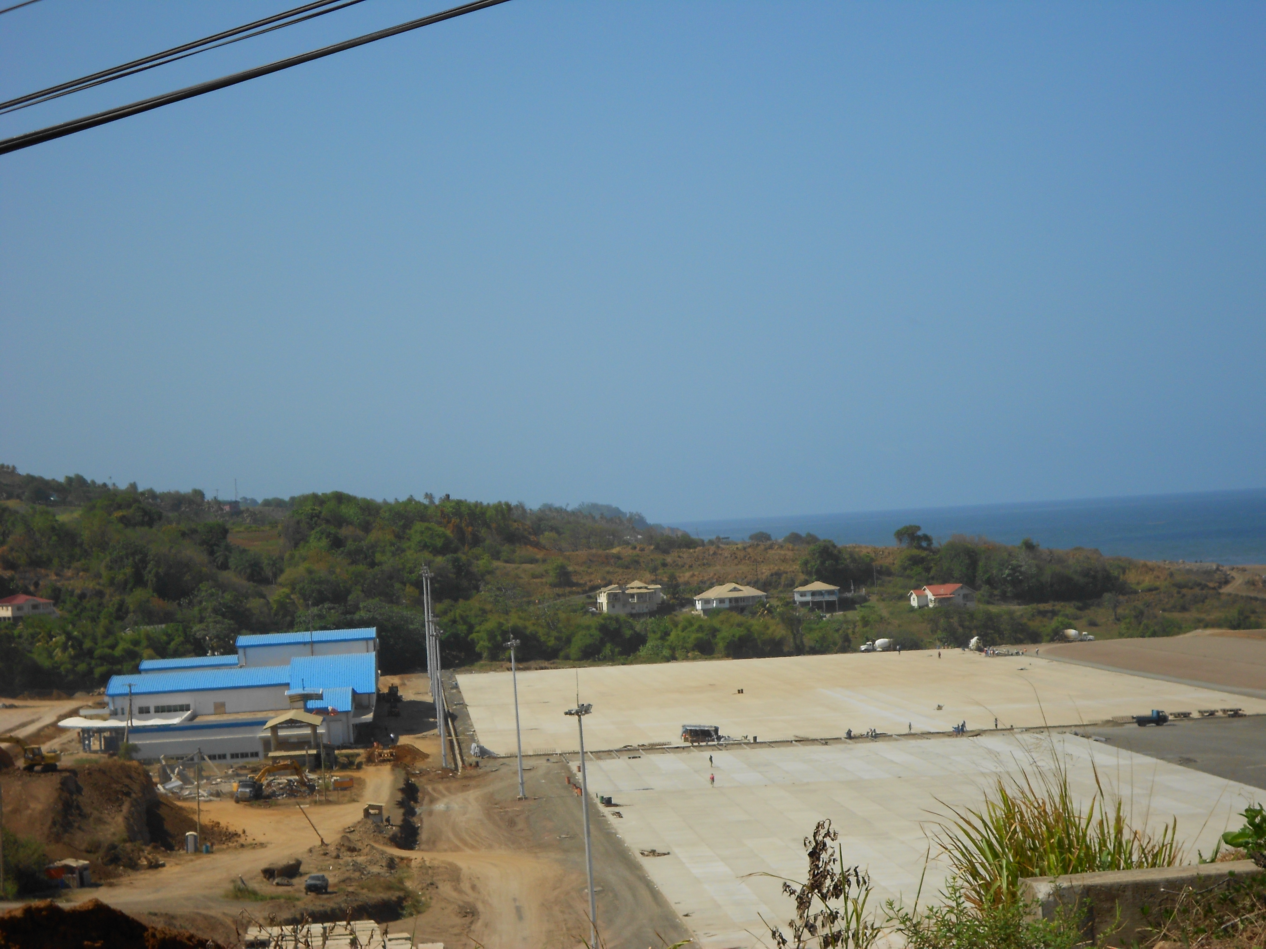 AIA during construction: Terminal and Apron